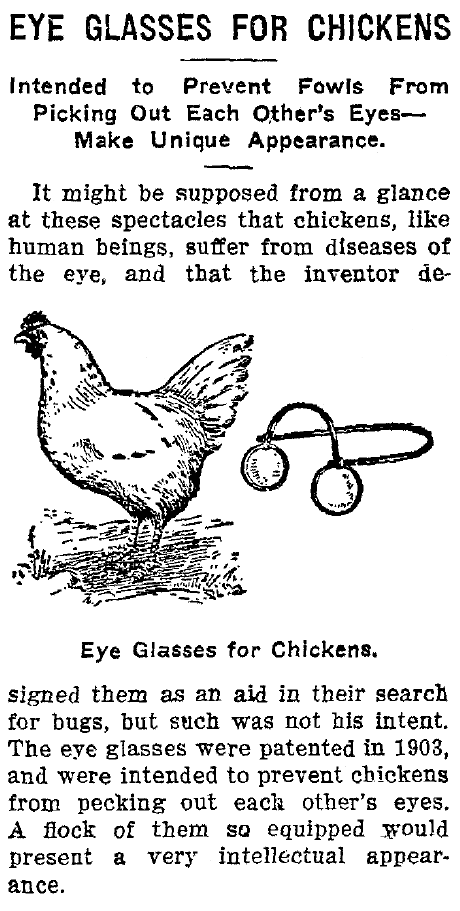 This image is a faithful digitalization of a newspaper story on "Eye Glasses for Chickens".